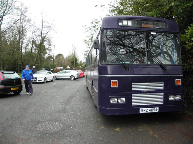 Leyland coach, Lovers Retreat. It was at the car park, having left off a football team and supporters to play in a match - it was manufactured in 1985.